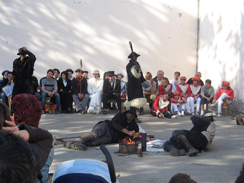 Act of the maskarada